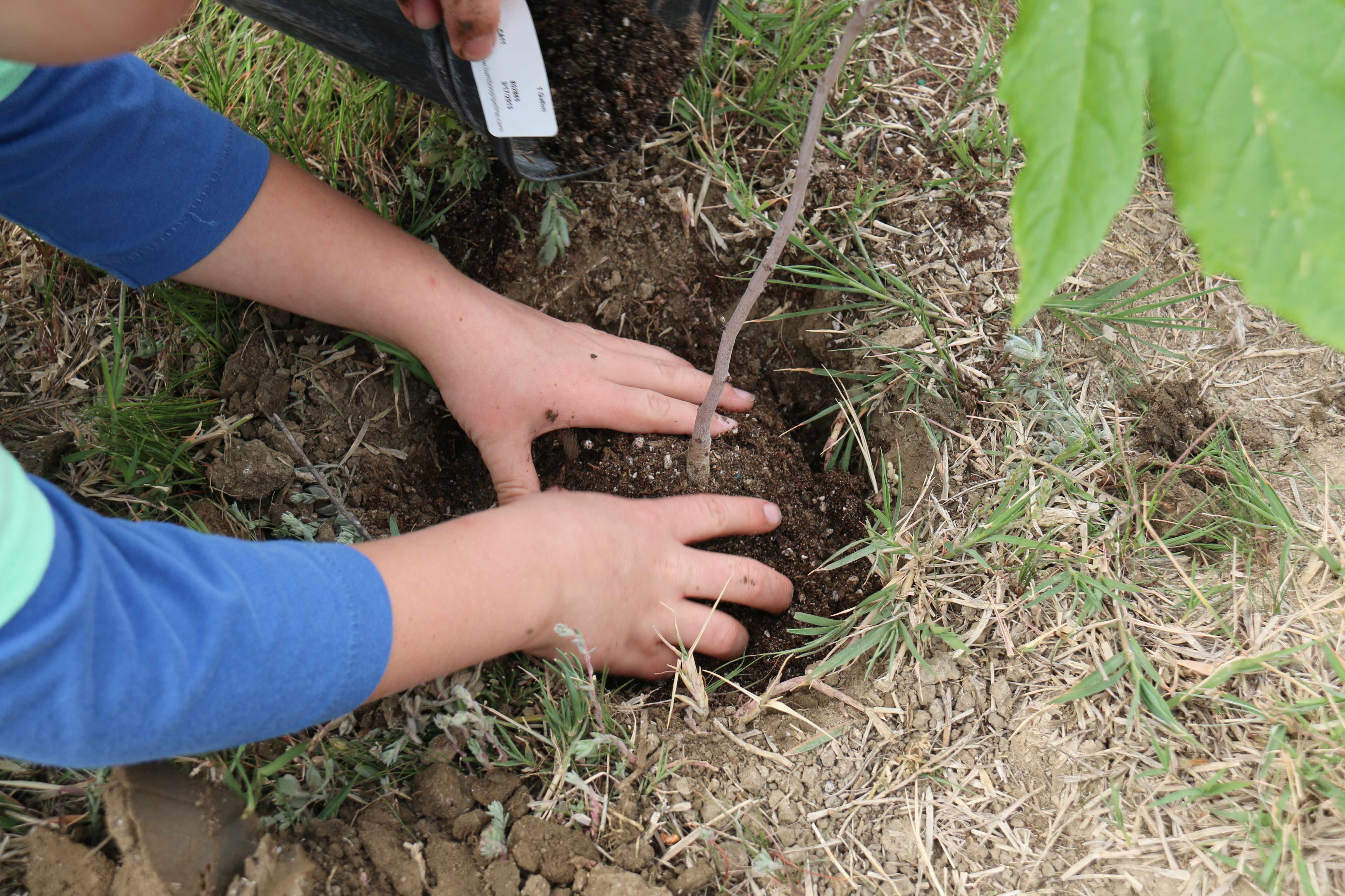 Simi Valley Adventist School is proud to partner with the U.S. Fish and Wildlife Service to create a Schoolyard Habitat that will serve as a haven for native plant and animal species. Through a $5,700 grant provided by the Ventura Fish and Wildlife Office, the school is creating a 57,000 square foot native habitat on school grounds. Students, teachers and community members will have the opportunity to study cyclic and seasonal natural phenomena in relation to climate and plant and animal life. Many of the plants in the habitat were once used by the Chumash tribe for both food and medicine. "This project gives us the ability to create a habitat where students can see what California might have looked like when the Chumash were the only people on the land, and promote plants not only for our own home usage but also as part of the ecosystem," said Stephen Stokes, principal of Simi Valley Adventist school. This March, the school, community members, congressional representatives and Service staff joined together to kick off the spring planting season. Once complete, this habitat has the potential to be the largest U.S. Fish and Wildlife Service Schoolyard Habitat in the nation.